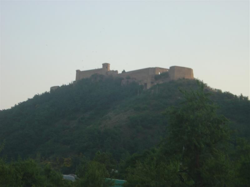 Hari Parbat Eastern View